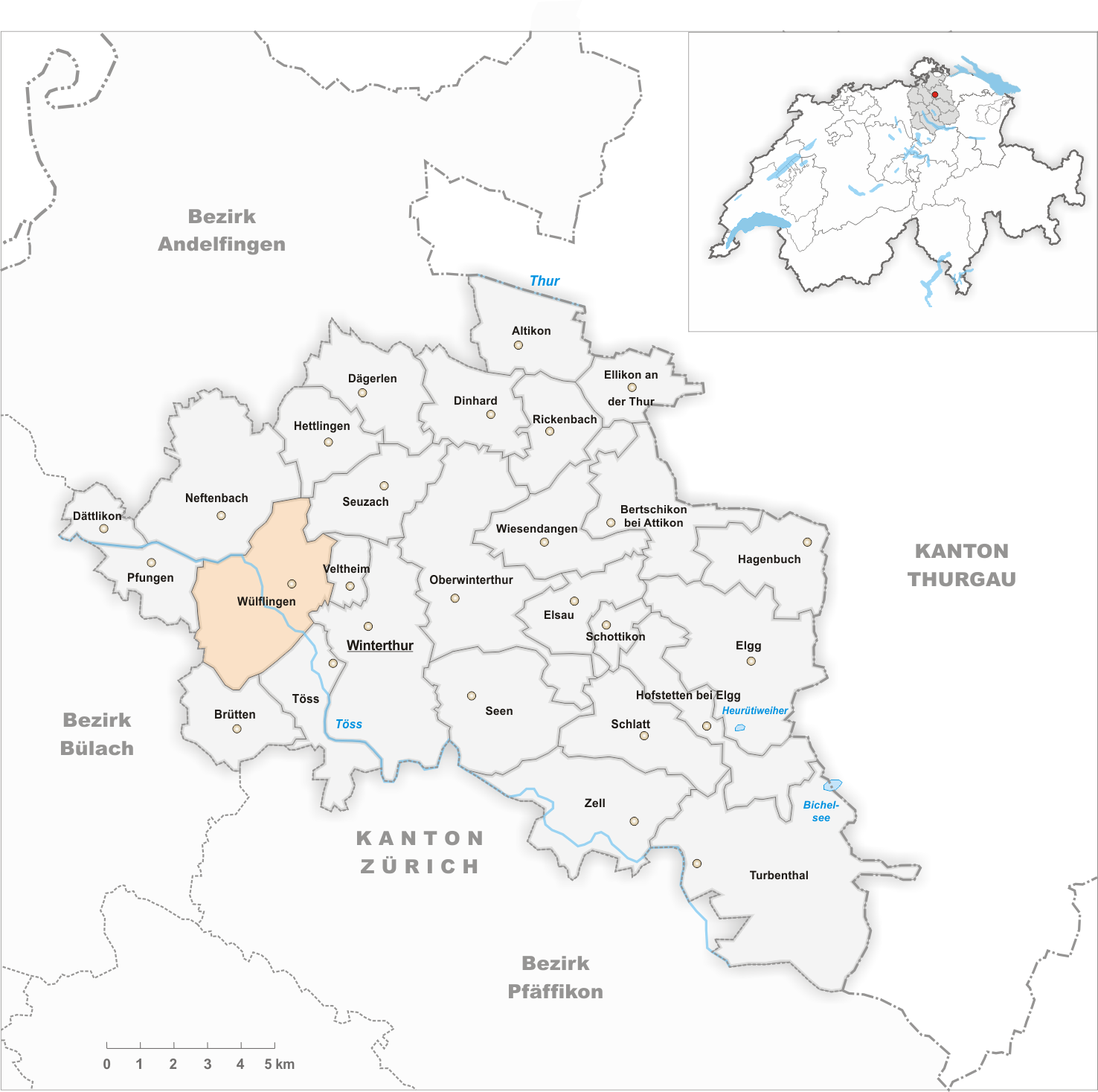 Municipality Wülflingen